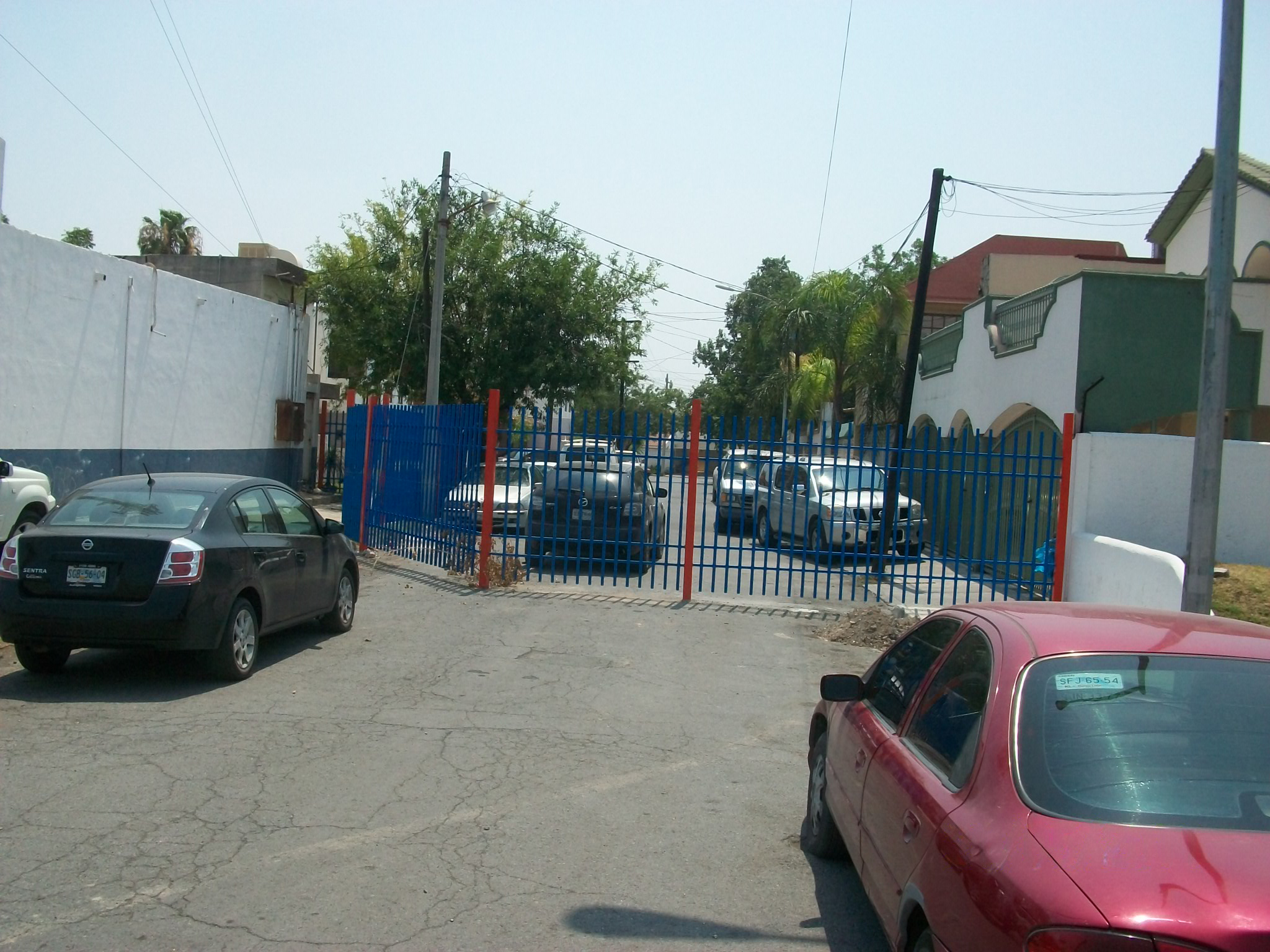 Public road closed to public access with municipality authorization during goverment period of Mayor Carlos de la Fuente. (Quevedo street, Anahuac neighborhood, San Nicolas de los Garza, NL, Mexico).